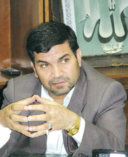 Hassan Rasouli - January 18, 2002